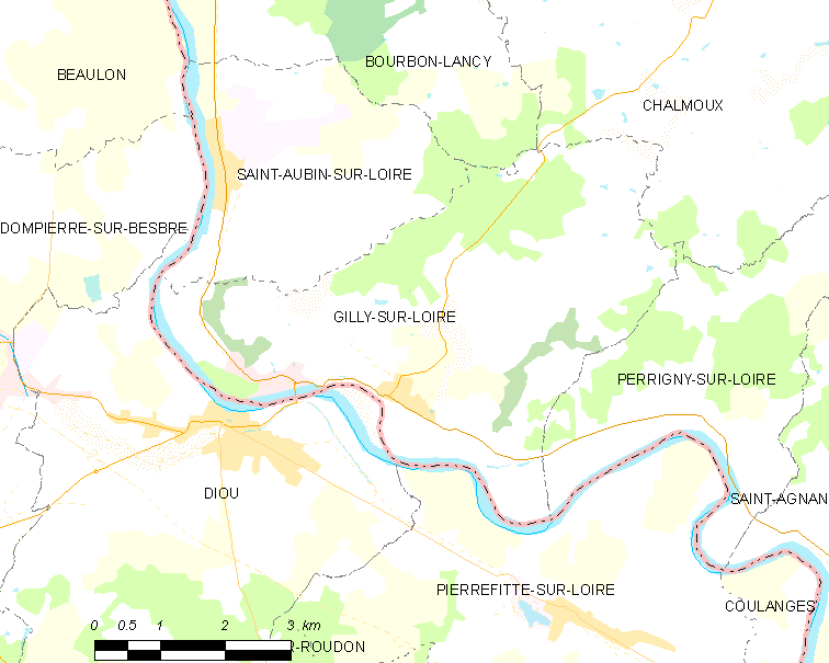 Map of French municipality